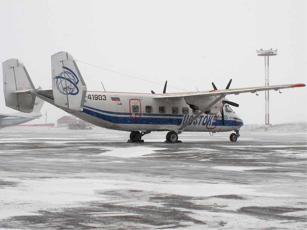 Vostok Airlines Antonov An-38-100